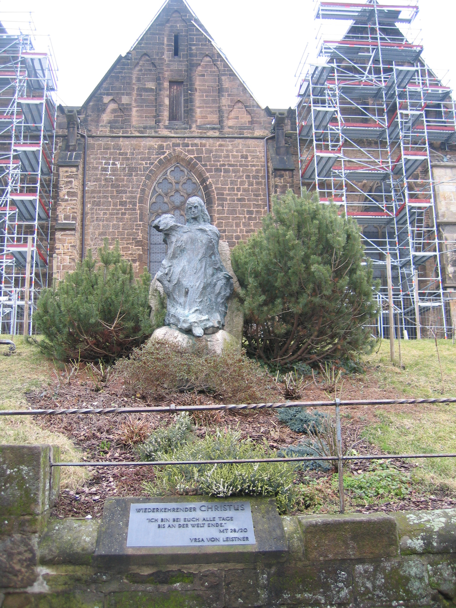 Sculpture in front of St. Mary in Minden, Minden-Lübbecke, North Rhine-Westphalia, Germany.